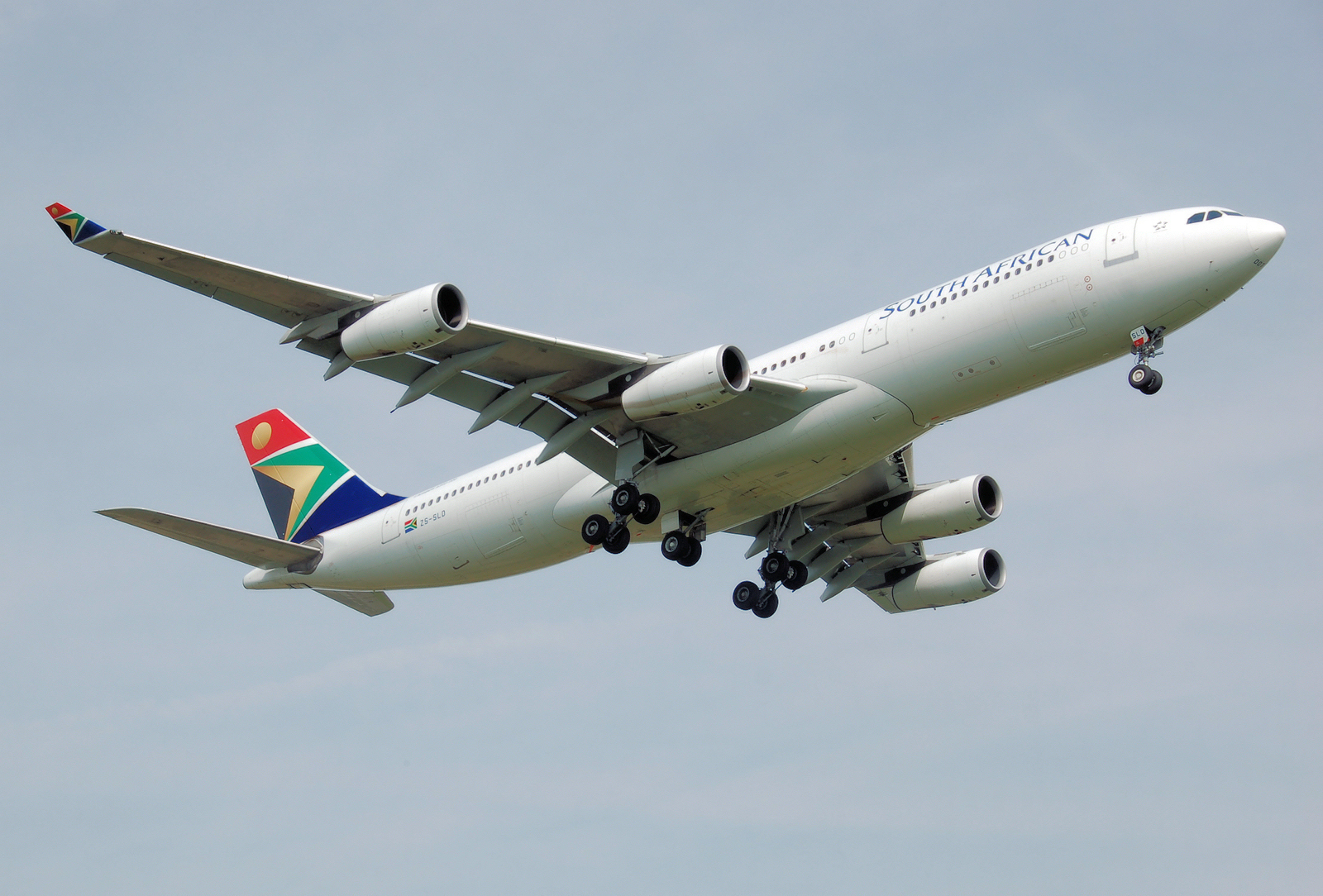 South African Airways Airbus A340-200 (ZS-SLD) lands at London Heathrow Airport, England.